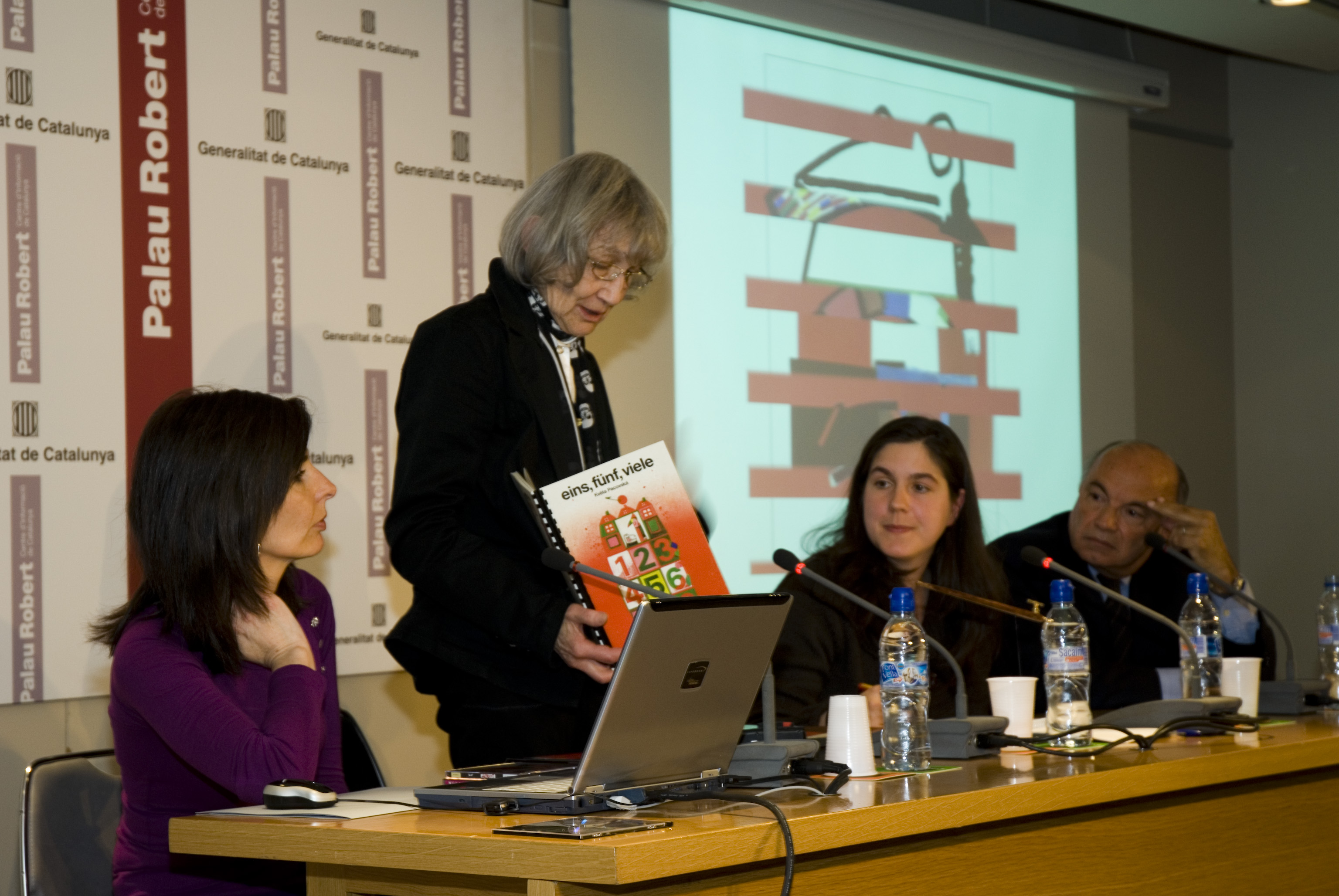 Kvĕta Pacovská, 2007, Barcelona, Illustrad'Or 2006 Award, children book